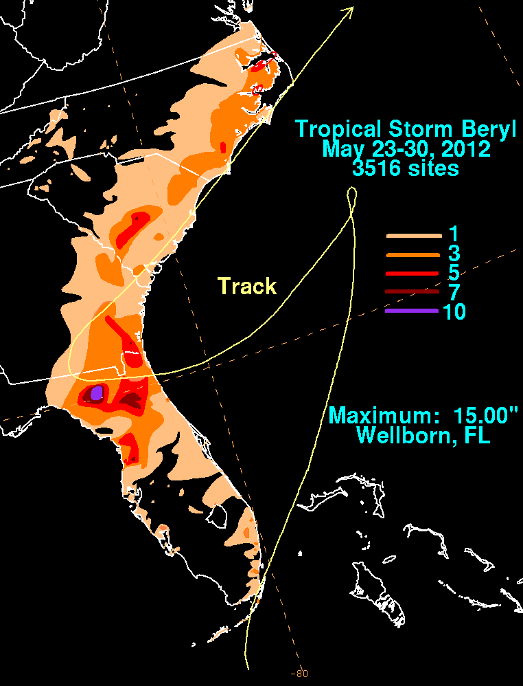 Storm total rainfall map of Tropical Storm Beryl during May 2012.